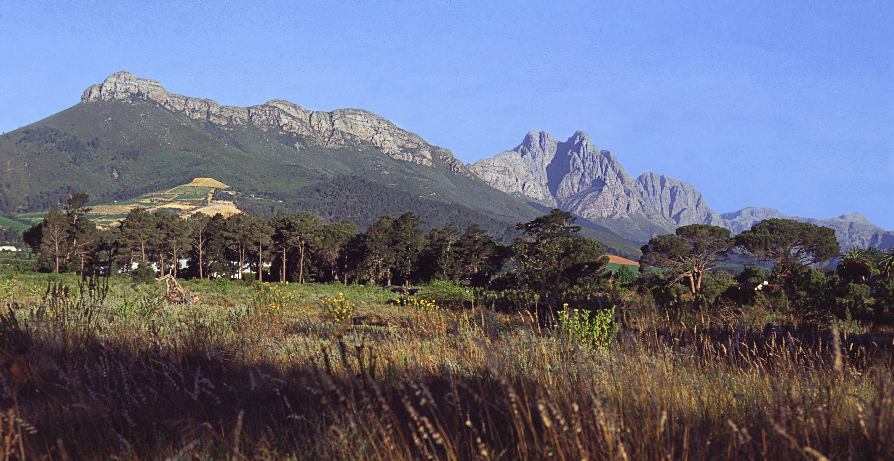 The Jan Marais Local Nature Reserve is a large park in the town of Stellenbosch, Western Cape, South Africa. Seen here are some of the mountains around the Jonkershoek valley, including "The twins" or "Twin peaks". Taken not long before sunset, and the colour is quite accurate for the time of day, the blue not being as saturated as other photos taken with this film.